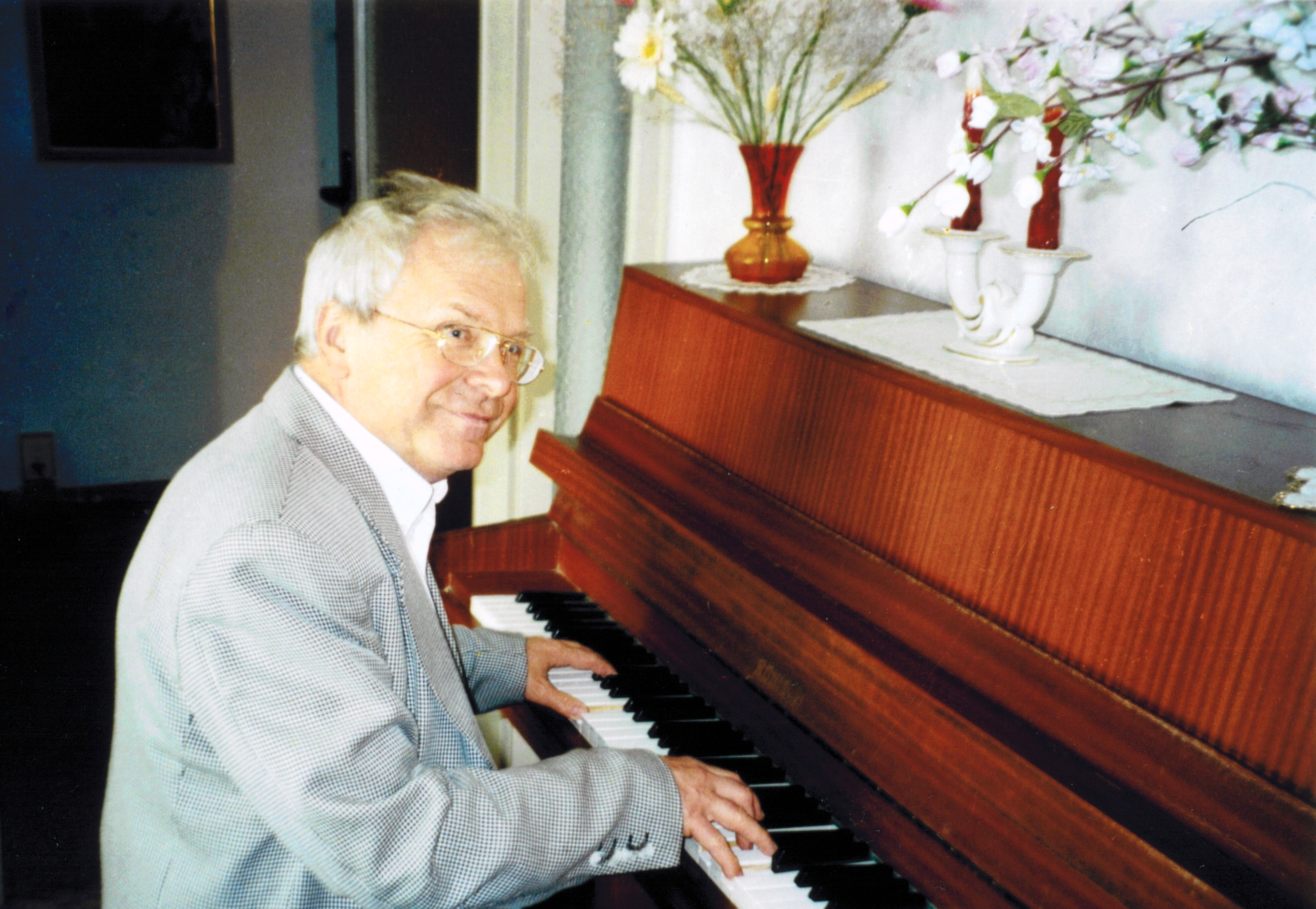 Josef Bönisch when composing